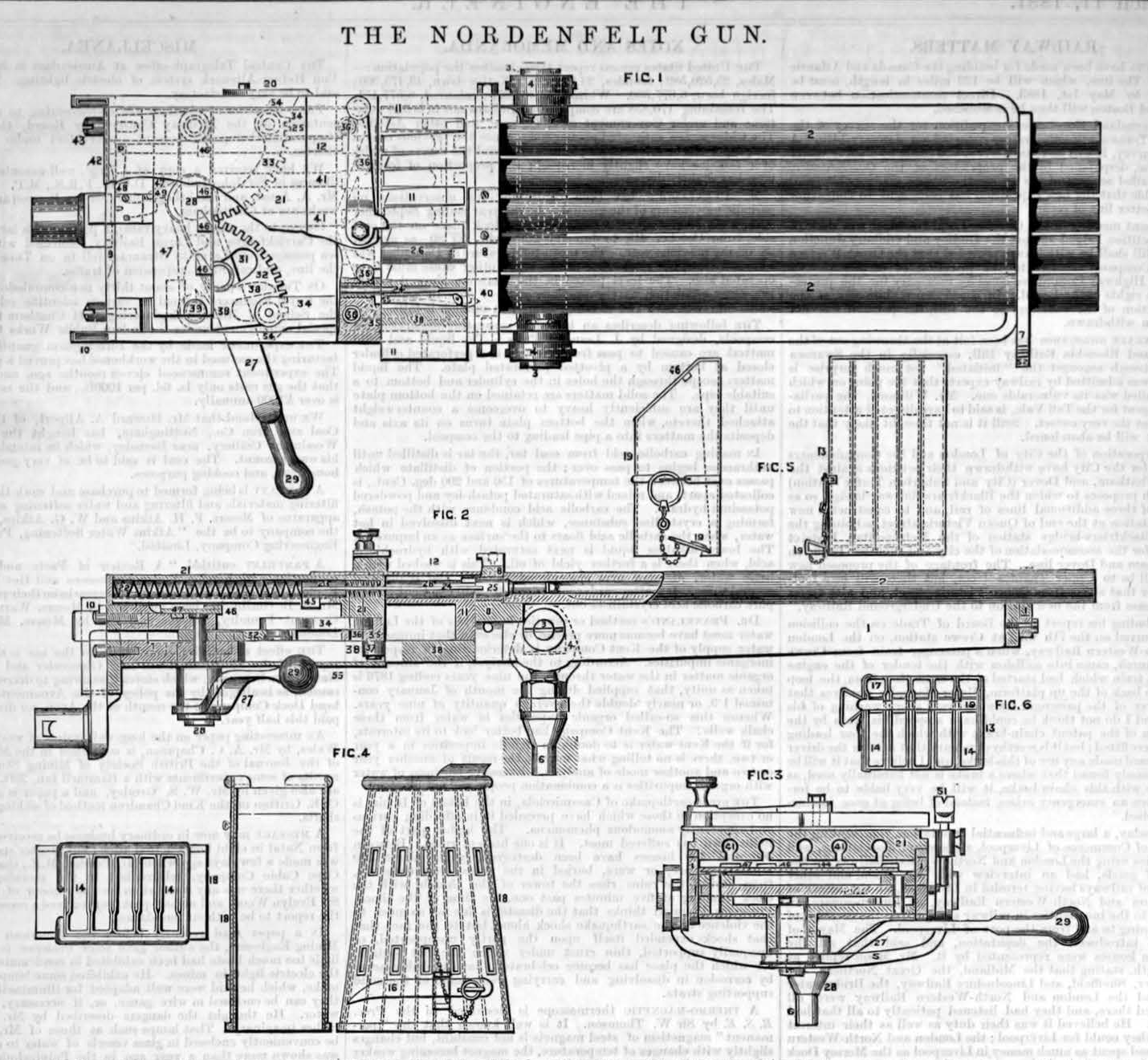 In January 1881 the Royal Navy started a series of tests with different marks of machine guns. This is the 5-barrelled Nordenfelt gun. The tests were described in the periodical The Engineer January 21, 1881 on page 42-44, and again March 11, 1881 on page 175, accompanied by a thorough description of the Nordenfelt gun on page 178.